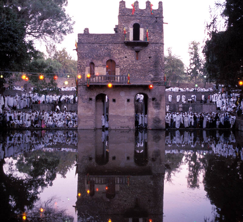 Crowds gather at the Fasiladas' bath in Gondar, Ethiopia, to celebrate Timket - the Epiphany for the Ethiopian Orthodox Tewahedo Church.